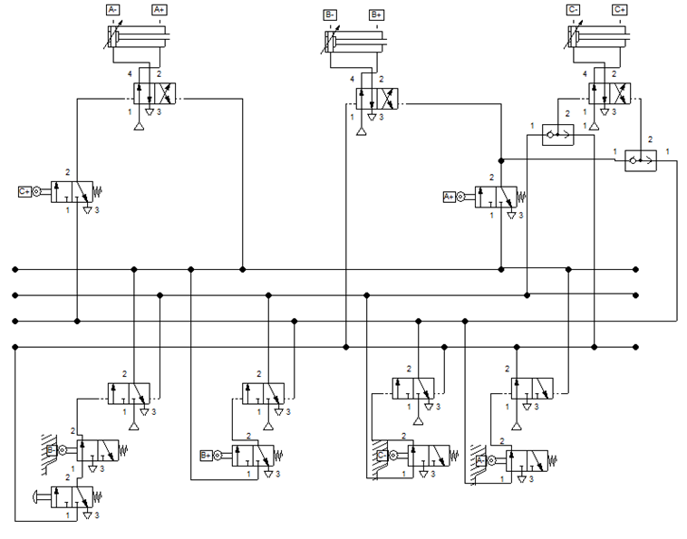 Circuito Paso a paso simplificado